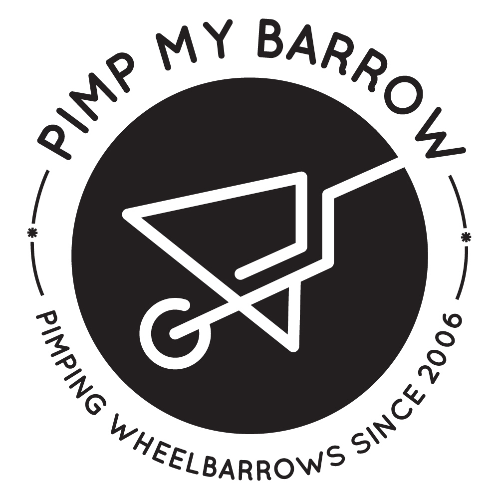 Trademarked logo registered with IPO